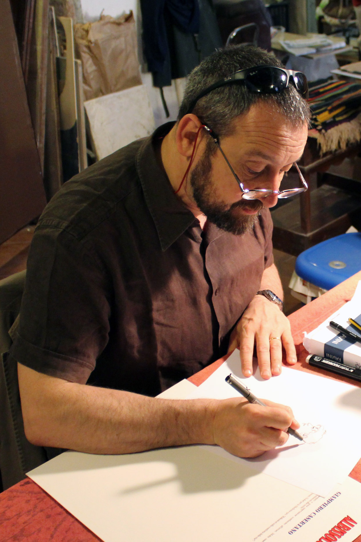 Albissola Comics 2013, May 4th-5th 2013, Albissola Marina, Savona, Italy